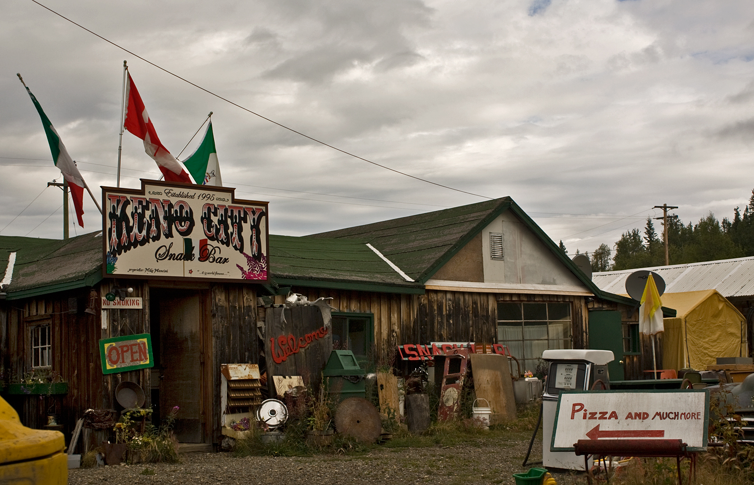 Keno City - Pizzaria and Snack Bar